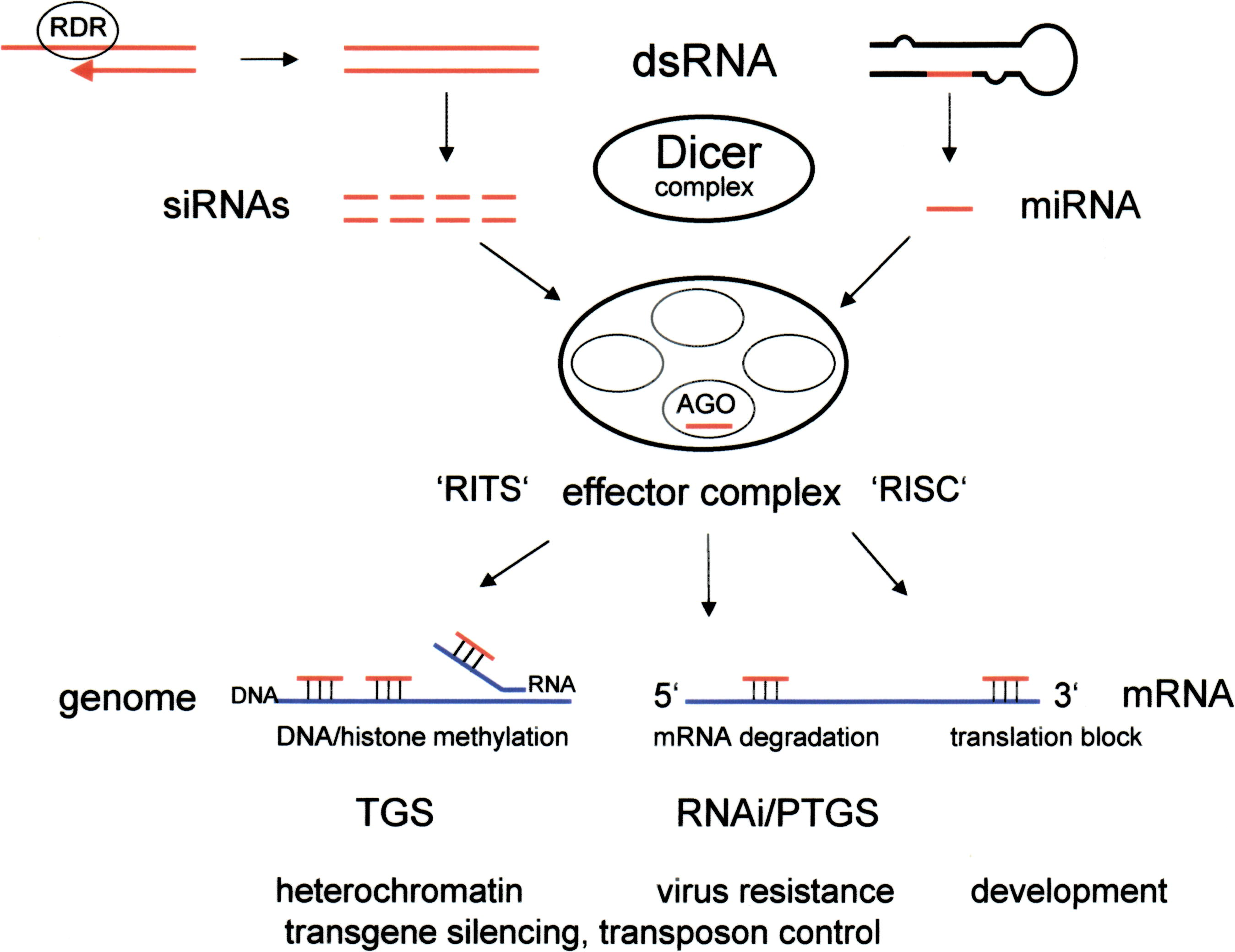 RNA-mediated silencing.